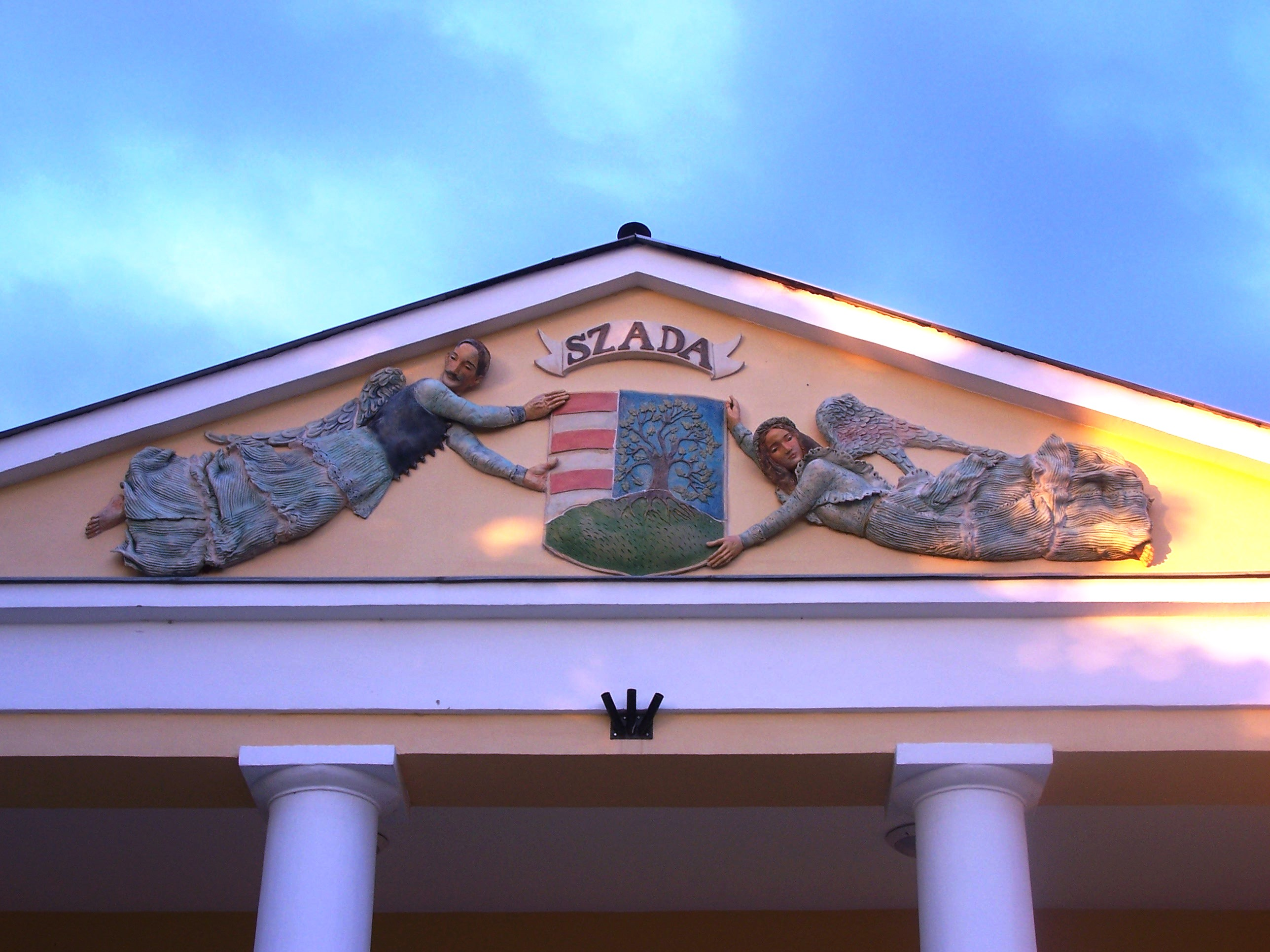 Grassalkovich-Pejacsevich Mansion, Szada, Hungary This is a photo of a monument in Hungary. Identifier: 7318